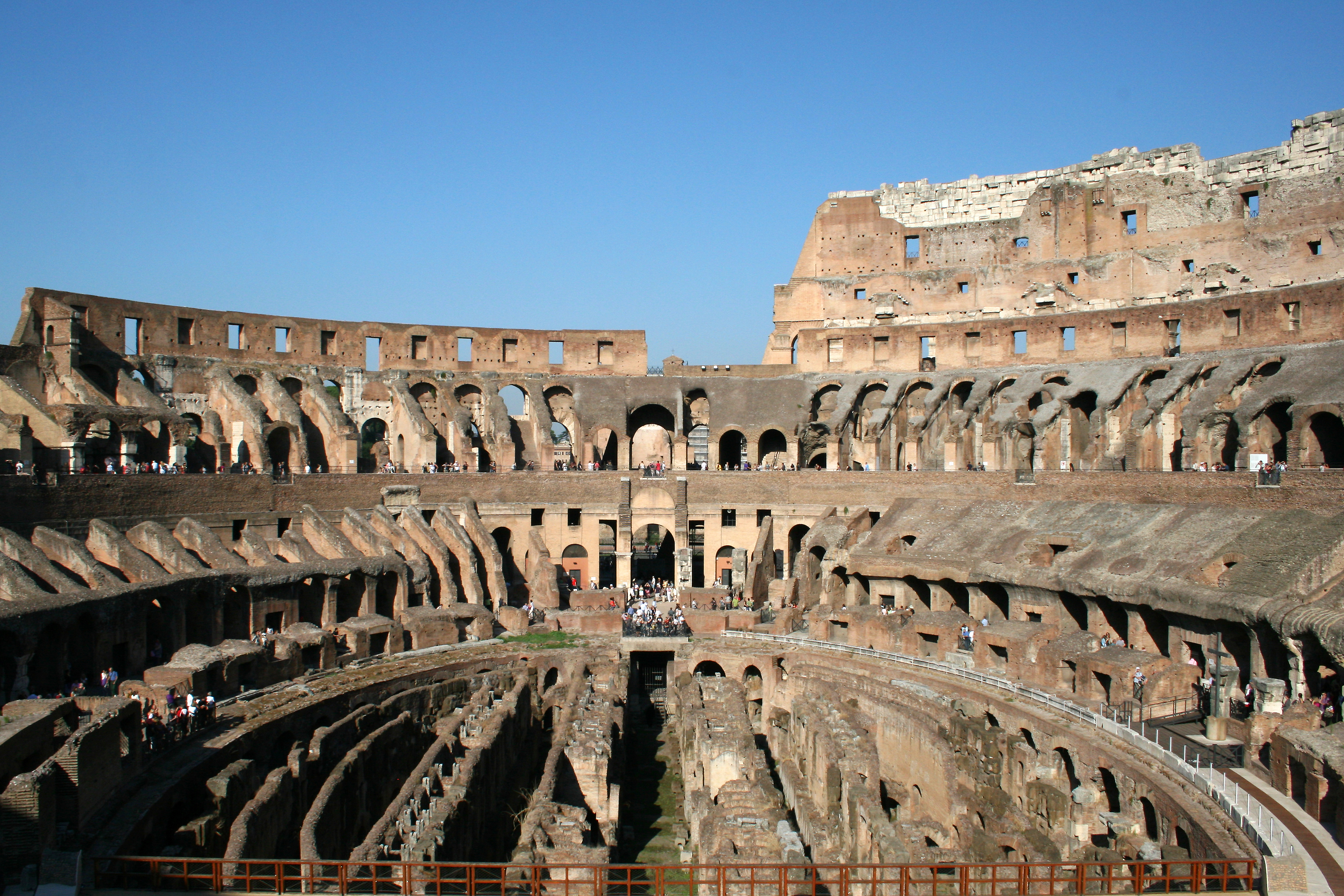 Inside of the Colosseum or Flavian amphitheatre, 70/72 - 80 DC in Rome.